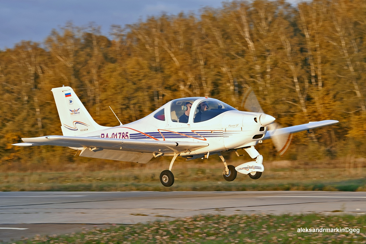 Airline"Chel-avia" Tecnam P2002JF RA-01785